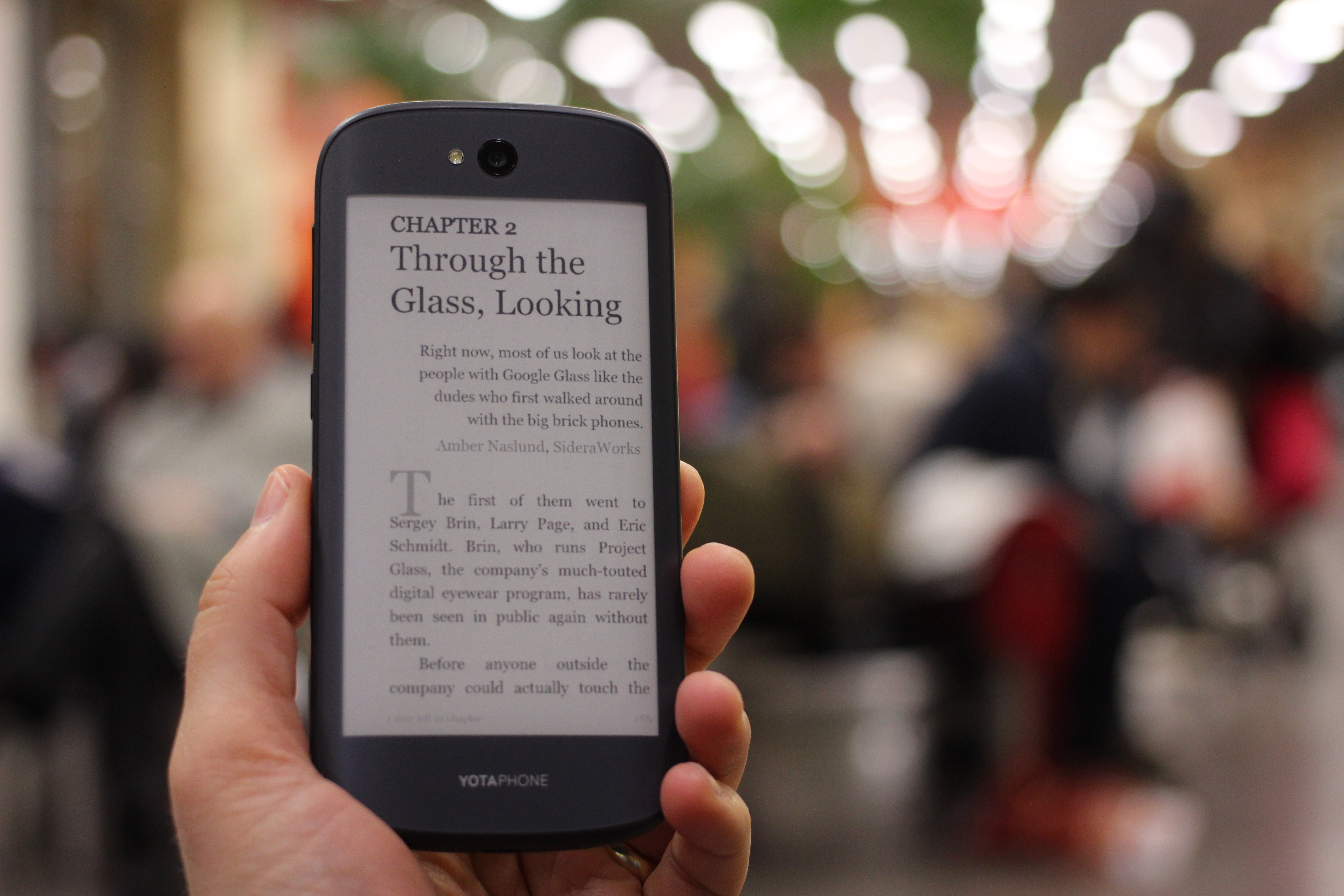 YotaPhone 2